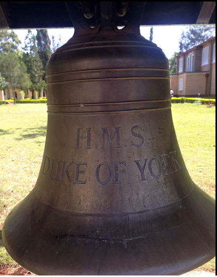 hms duke of york bell